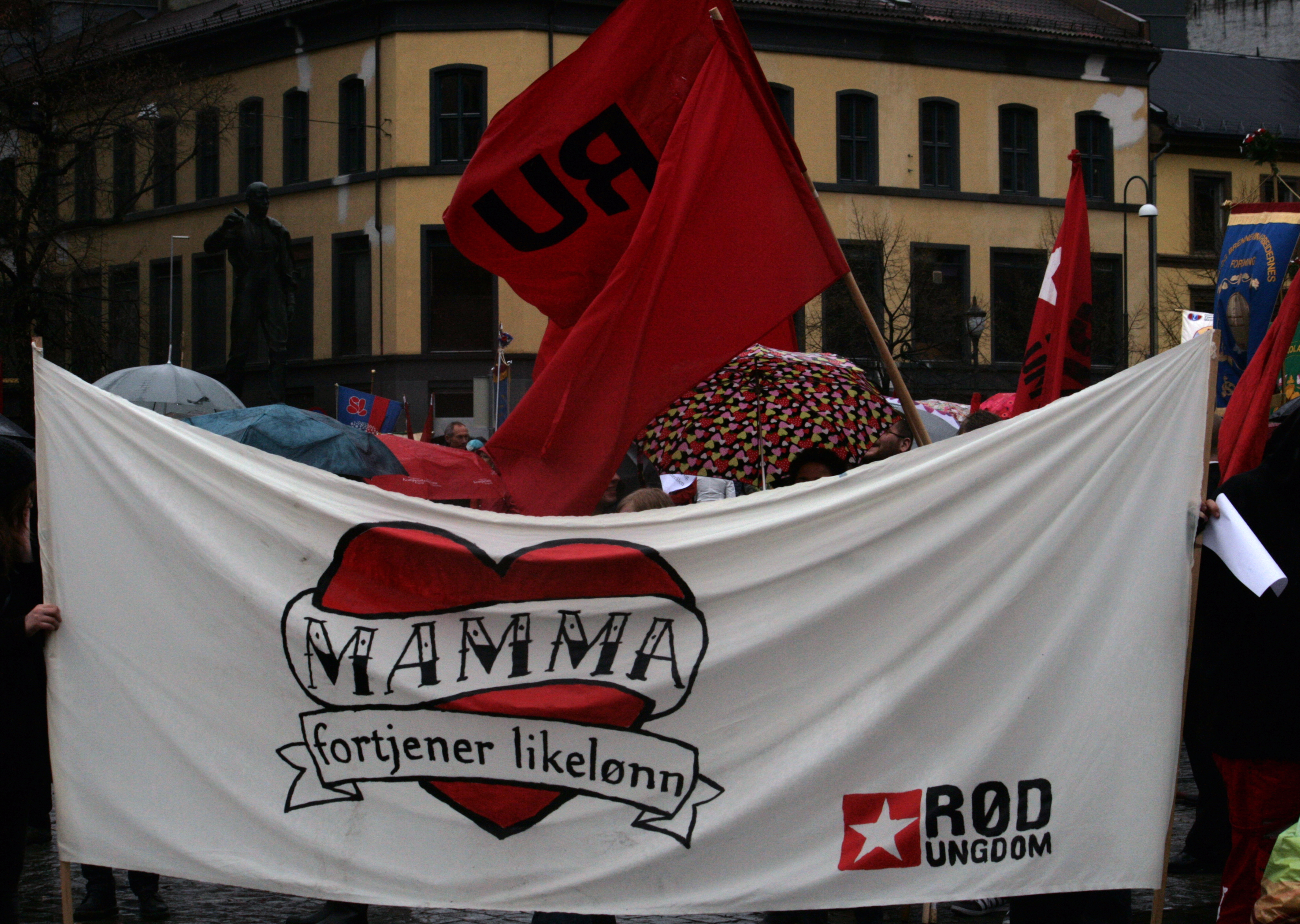 Labour Day 2010 in Oslo, Norway: Red Youth with a banner promoting non-discriminatory payments (Mommy deserves to get equally paid)